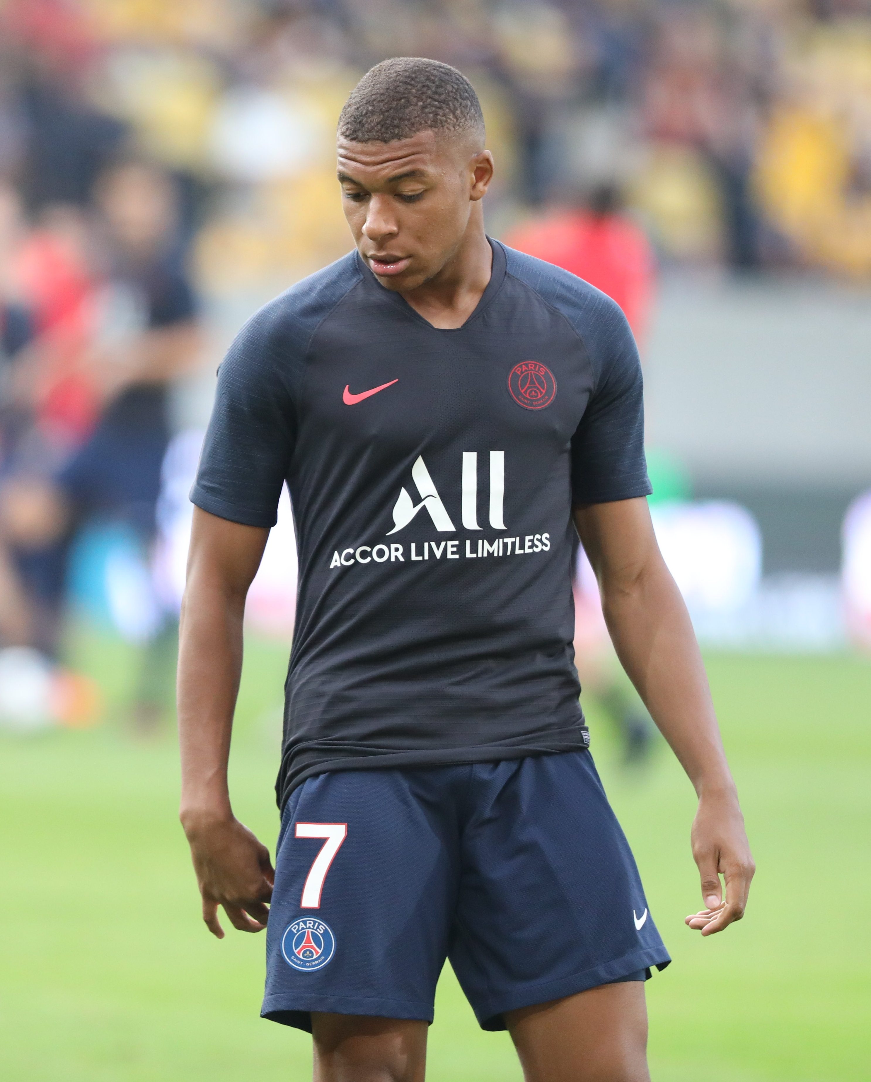 Test game, 17th July 2019: SG Dynamo Dresden vs. Paris Saint-Germain 1:6 (0:3)